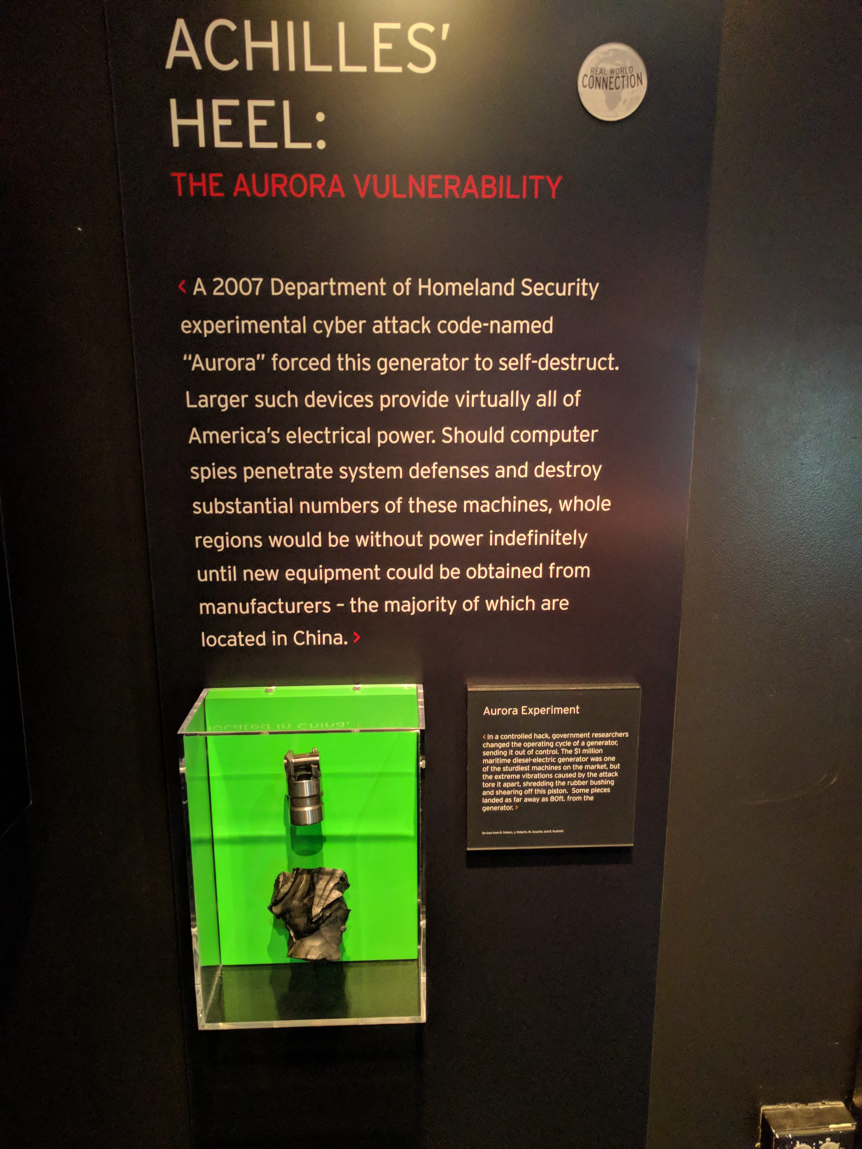 A 2007 Department of Homeland Security experimental cyber attack code-named "Aurora" forced this generator to self-destruct. Larger such devices provide virtually all of America's electrical power. Should computer spies penetrate system defenses and destroy substantial numbers of these machines, whole regions would be without poor indefinitely until new equipment could be obtained from manufacturers - the majority of which are located in China. Aurora Experiment: In a controlled hack, government researchers changed the operating cycle of a generator, sending it out of control. The $1 million maritime diesel-electric generator was one of the sturdiest machines on the market, but the extreme vibrations caused by the attack tore it apart, shredding the rubber bushing and shearing off this piston. Some pieces landed as far away as 80 ft. from the generator. On loan from R. Folkers, J. Roberts, M. Assante, and B. Kuehnle